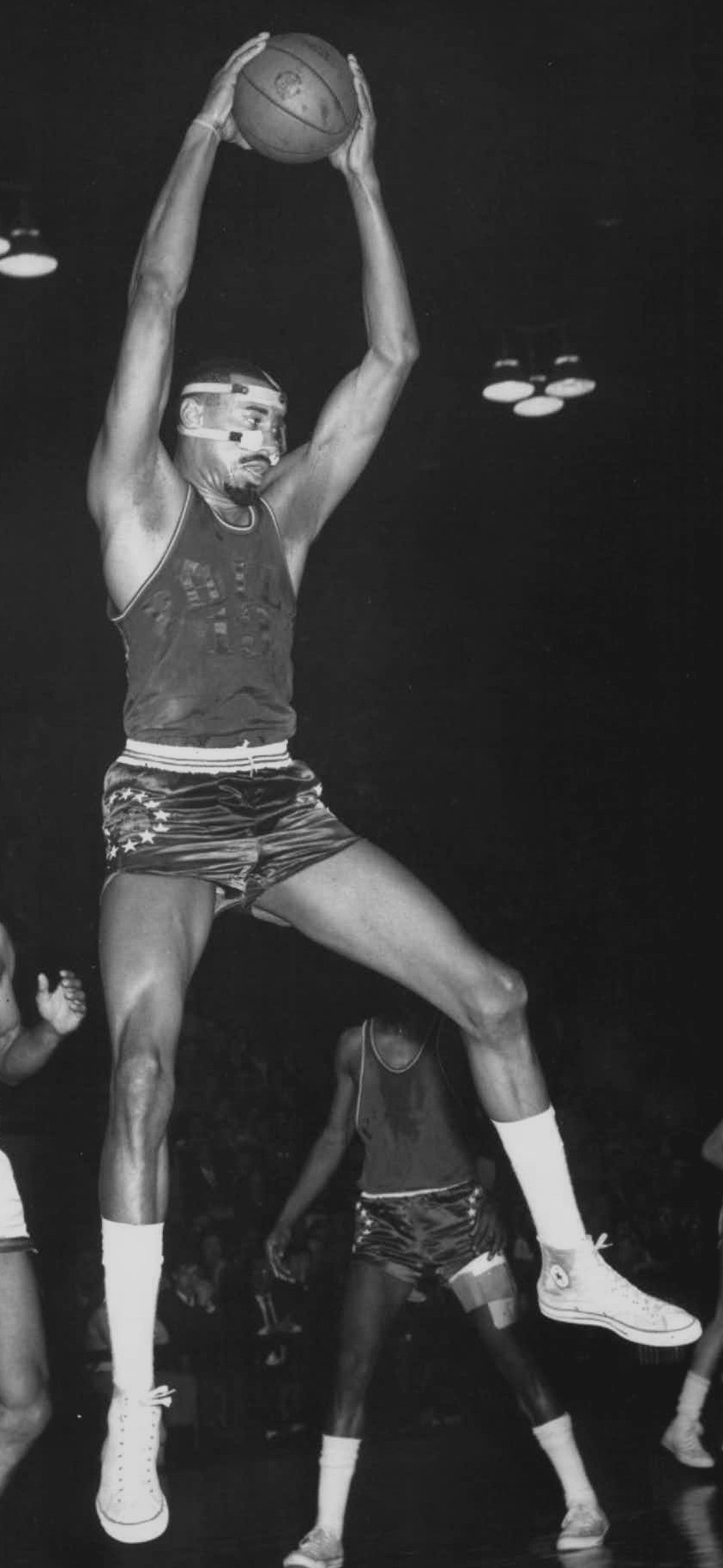 Professional basketball player Wilt Chamberlain